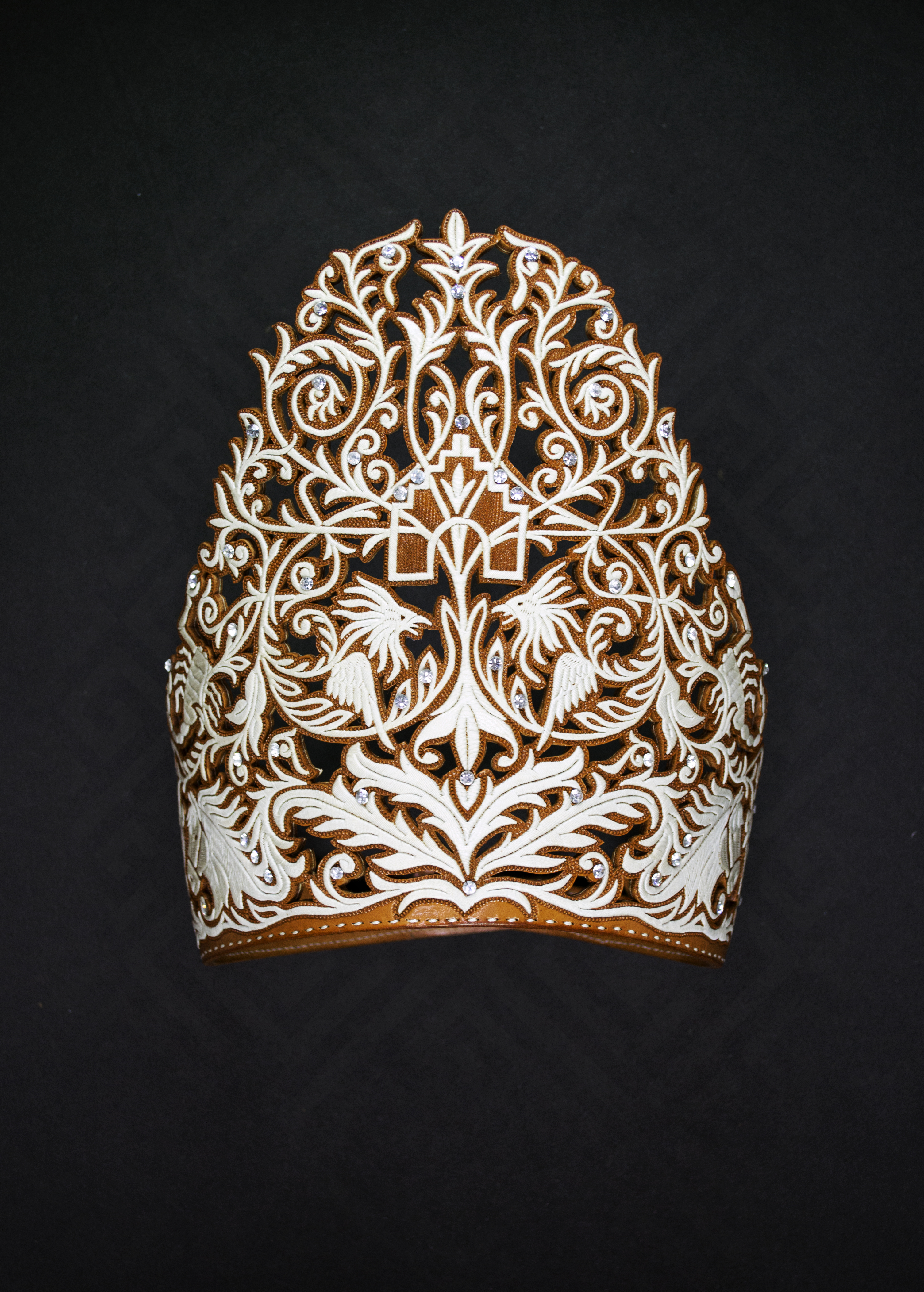 Crown made of handicraft Piteado (leather embroidery), for the queen of the 25th National Fair Piteado (2016) in Colotlán Jalisco, Mexico .